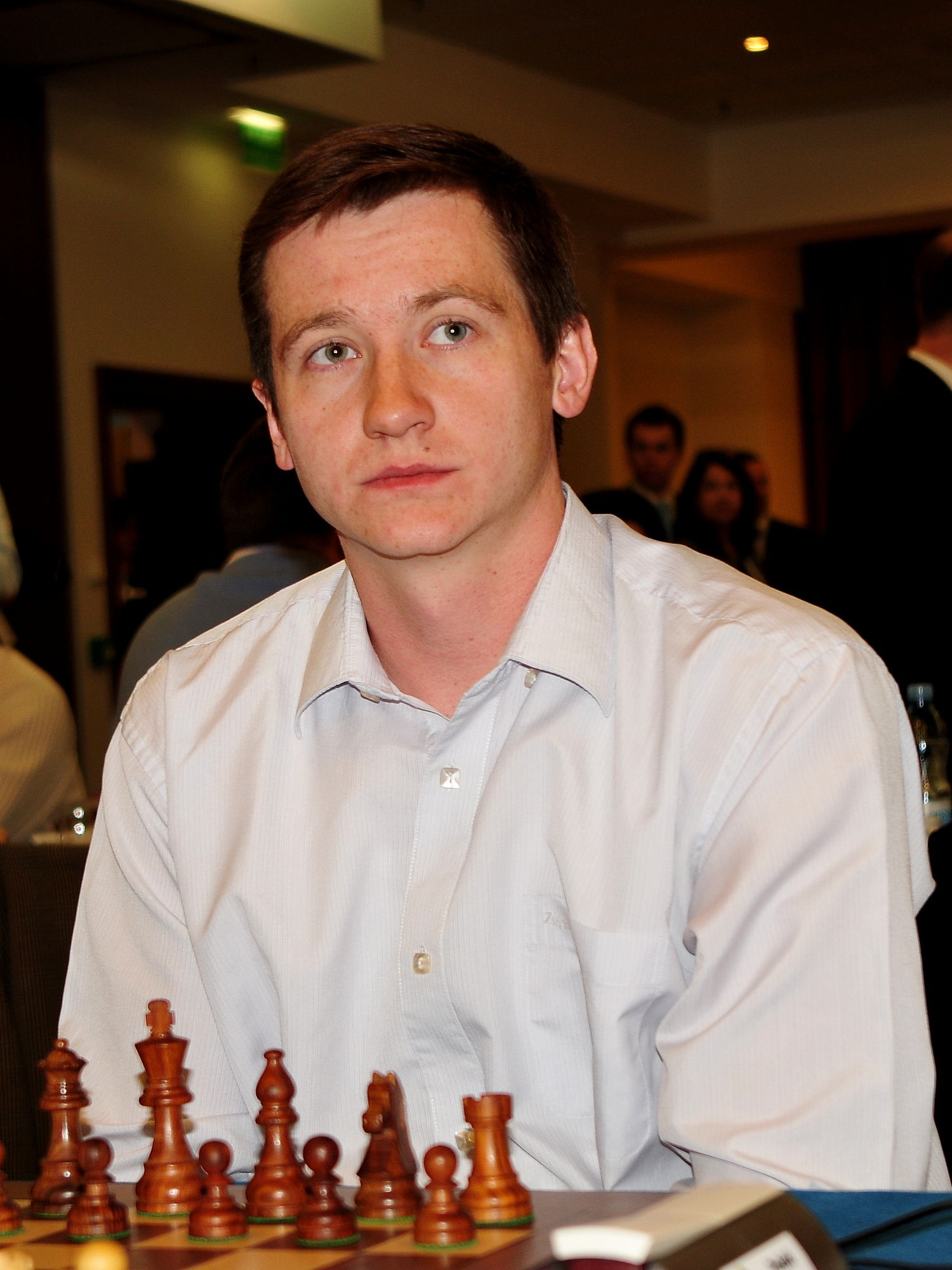 GM Zahar Efimenko, European Chess Team Championship Warsaw 2013